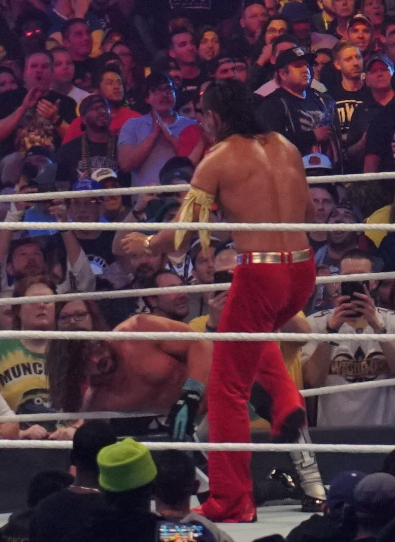 Shinsuke Nakamura attacks A.J. Styles after losing to him.